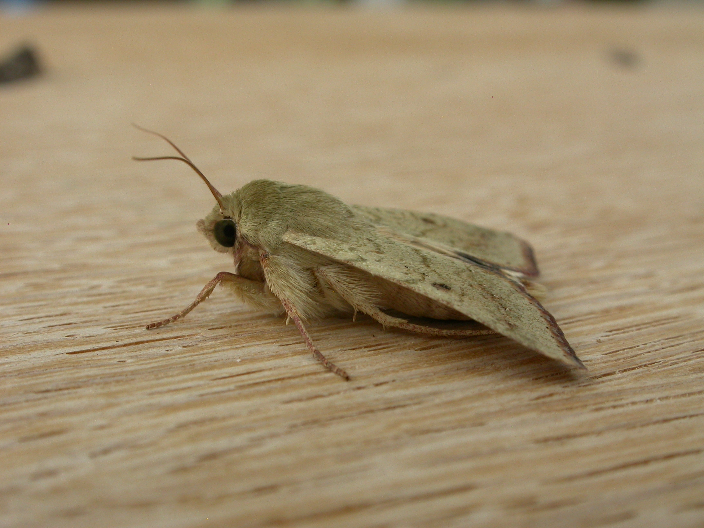 Helicoverpa armigera (Hübner, 1805), to MV light, Aranda, ACT, 4/5 January 2011